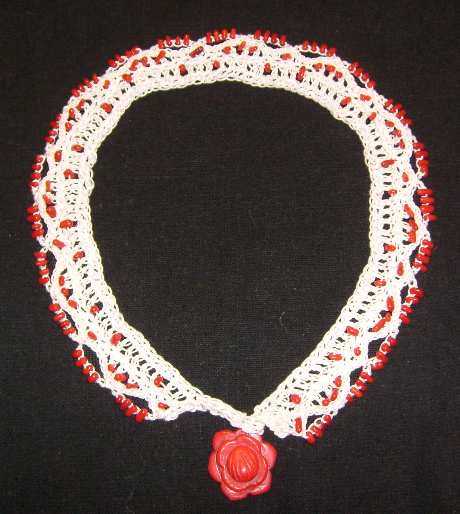 Beaded crochet necklace, mercerized cotton and coral. Original design.